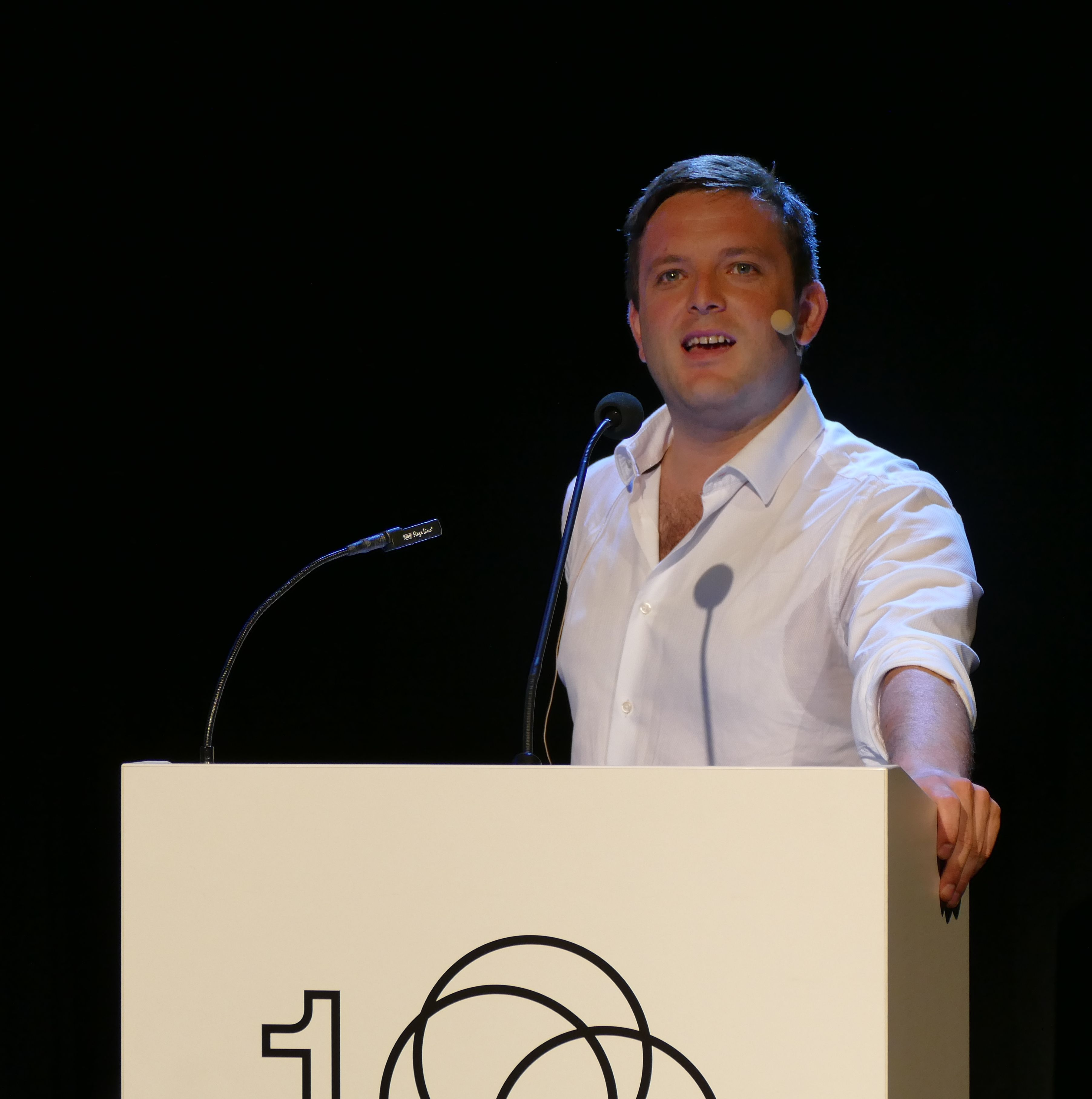 Jon Pult, Swiss Politician, President of the Alpine Initiative, at a discussion during the jubileum of the Romansh language association Lia Rumantscha, august 2019 in Zuoz (Switzerland).